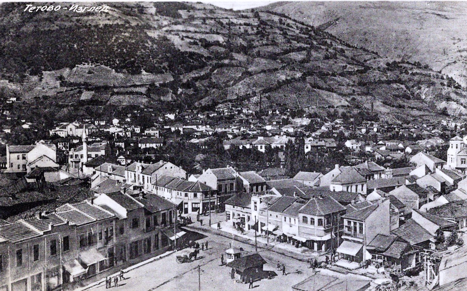 Postcard from Tetovo, 1939 This media file is produced by Wikipedian in Residence in Category:Wikipedian in Residence at DARM in 2016.